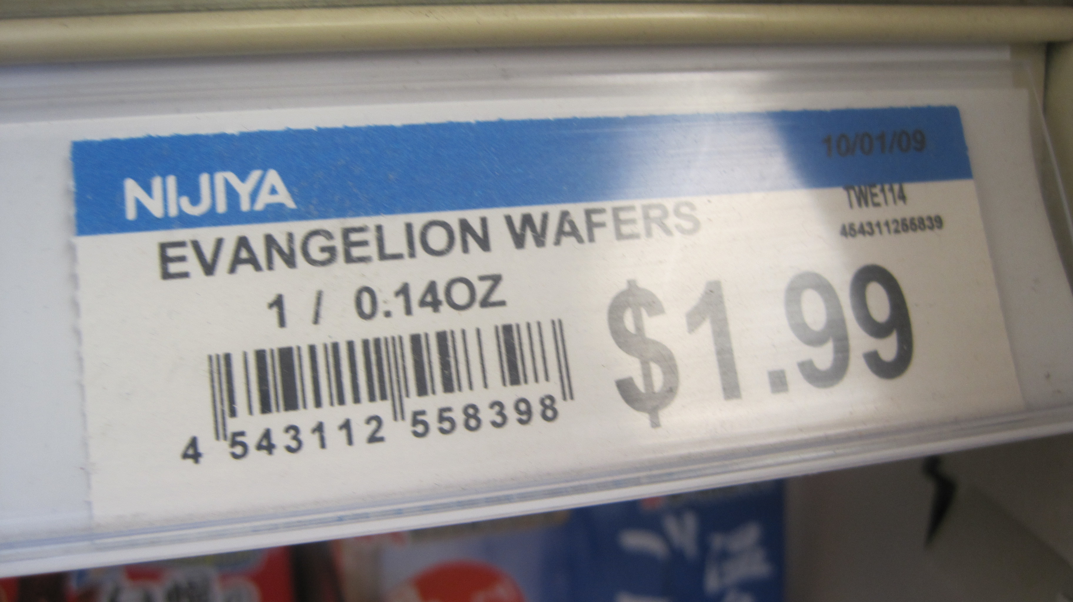 A barcode for Evangelion Wafers at Nijiya Market in Japantown, San Francisco.